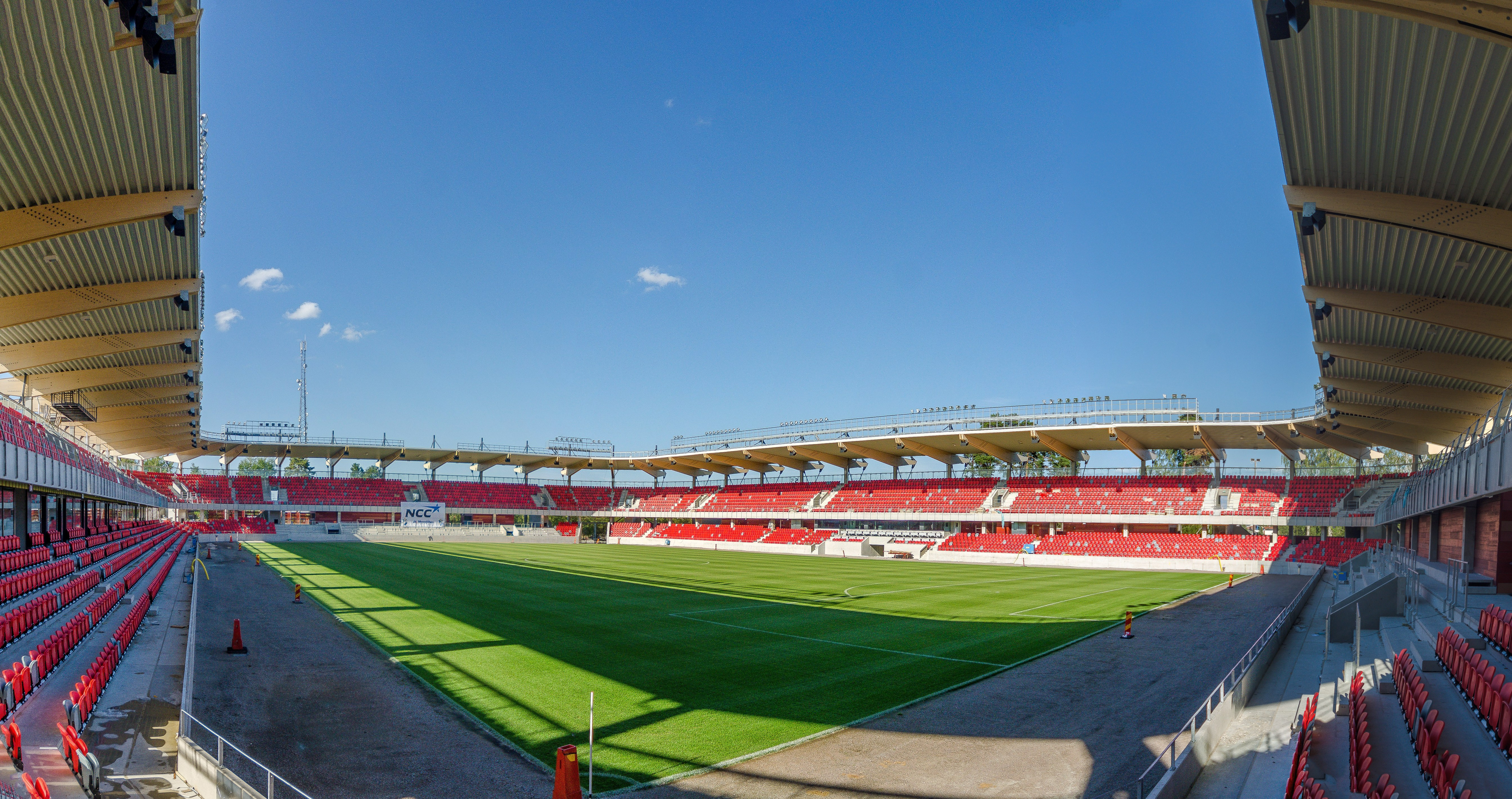 Panoramic view of Östers IF's new Myresjöhus Arena from the lower tier of the southwest corner.